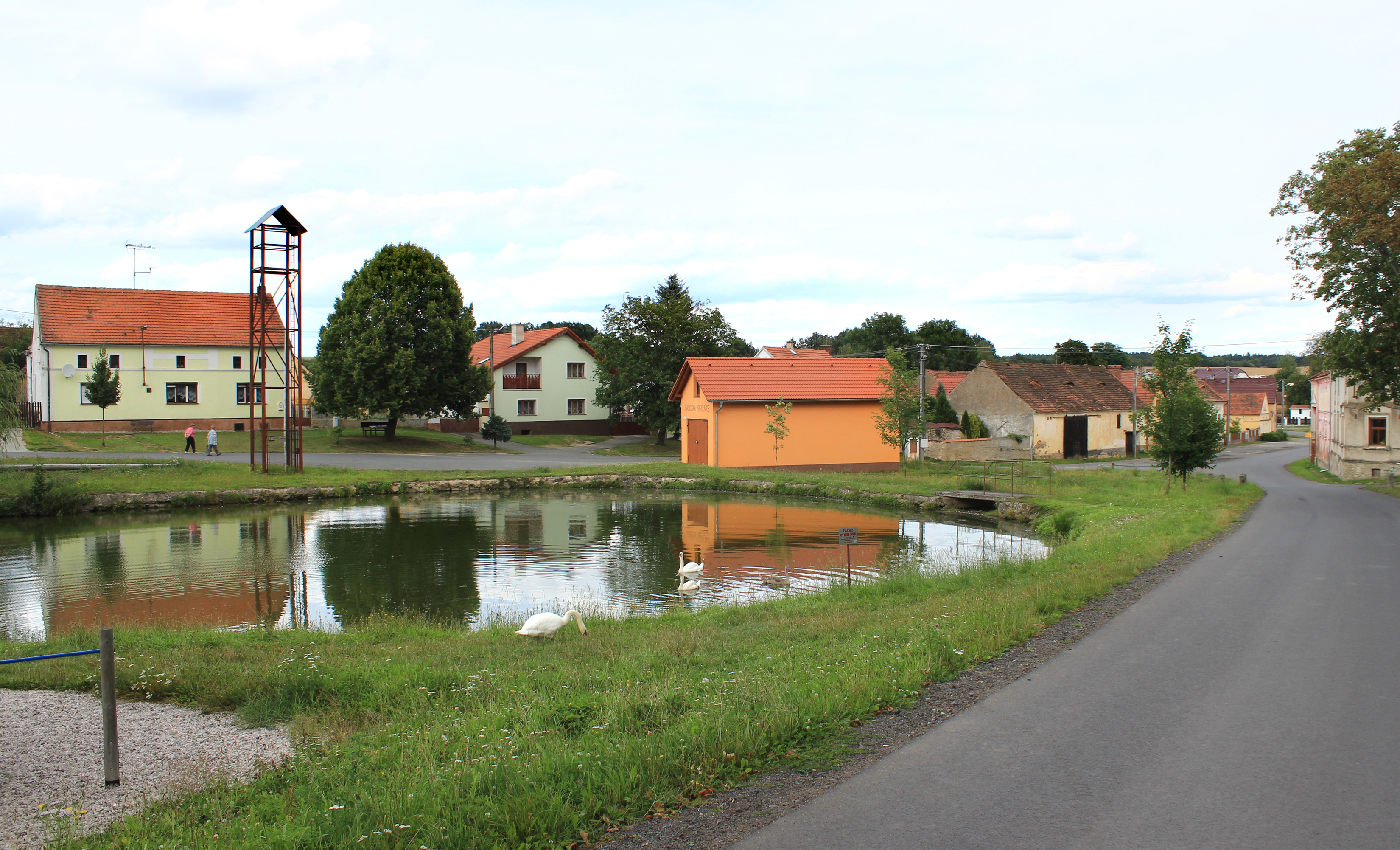 Common in Honezovice, Czech Republic.